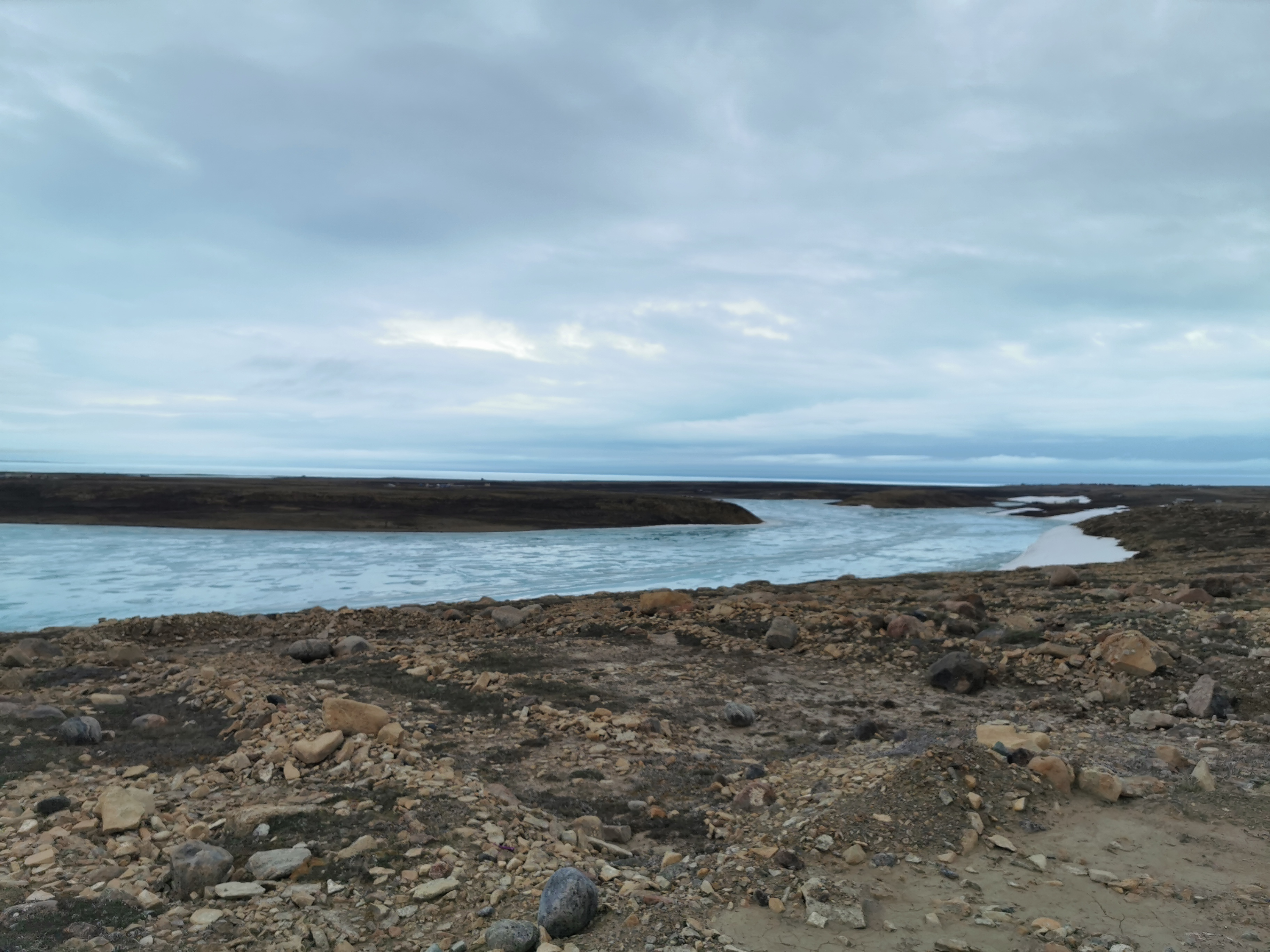 Looking to the west and the head of the fiord. Some cabins can be seen and towards the south (top) is the Canadian mainland.